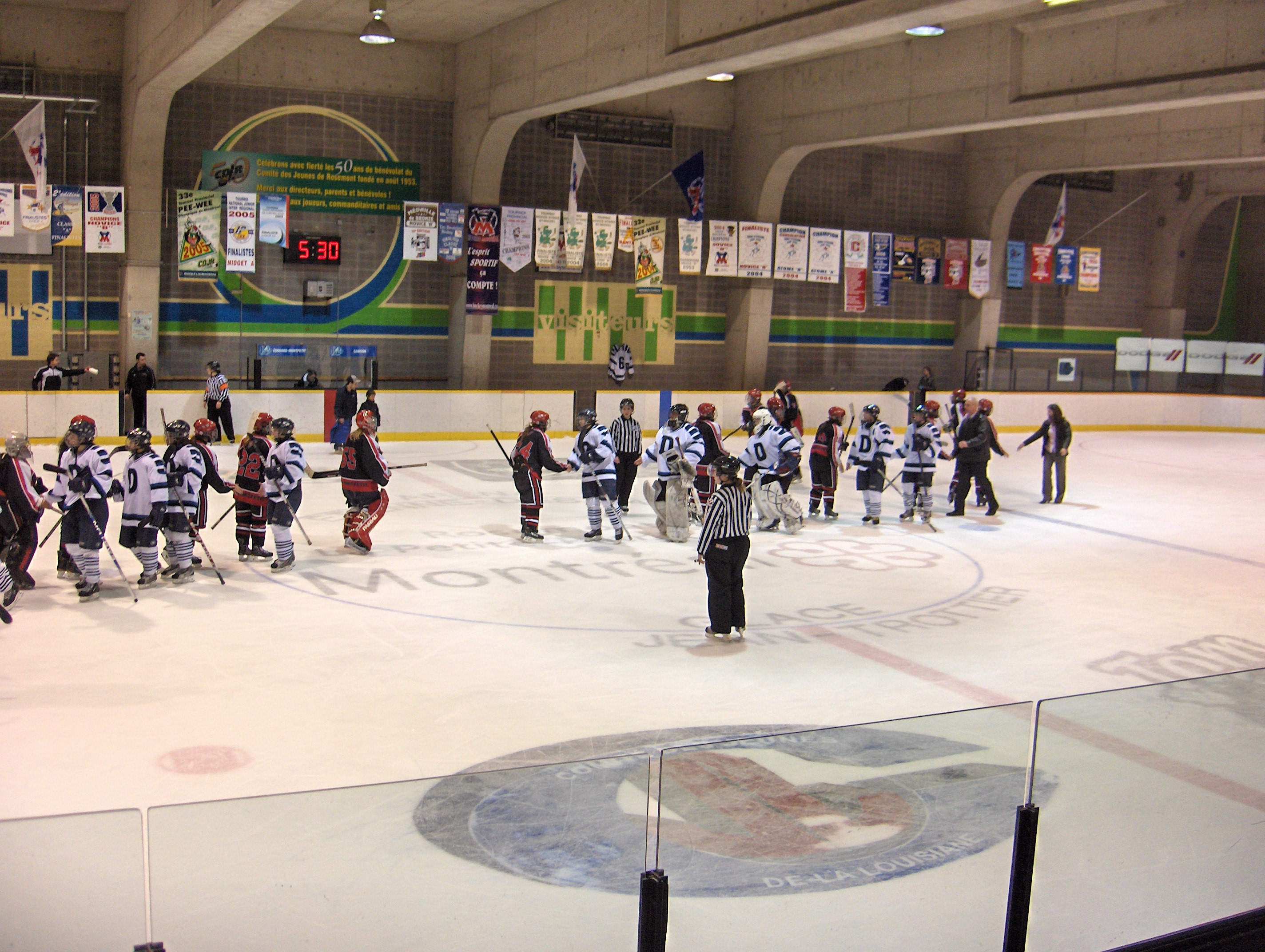 semi-Final Lynx du Collège Édouard-Montpetit vs Dawson Blues